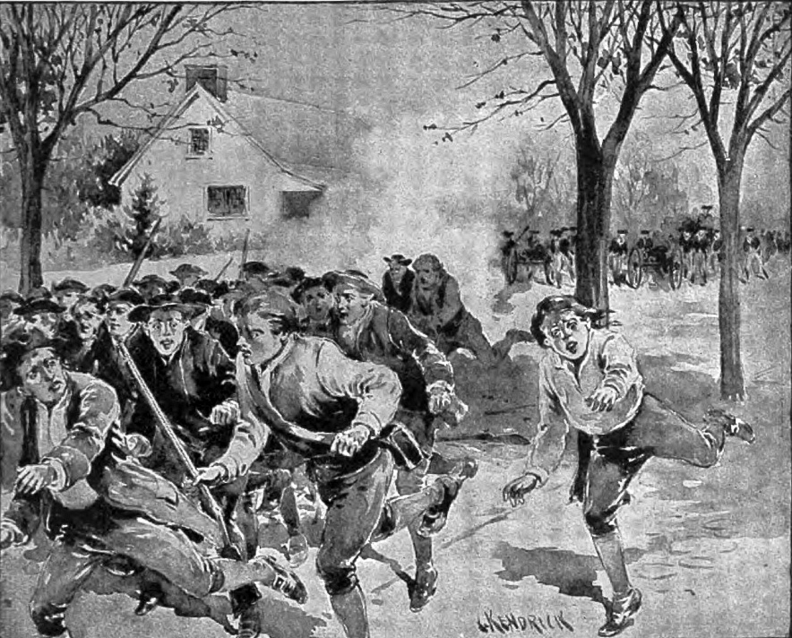 An early 20th century portrayal of Daniel Shays forces fleeing from Federal troops in an attempt to lay siege to the Springfield Arsenal with only 4 killed and virtually no musket fire; they would regroup later in Amherst, Massachusetts